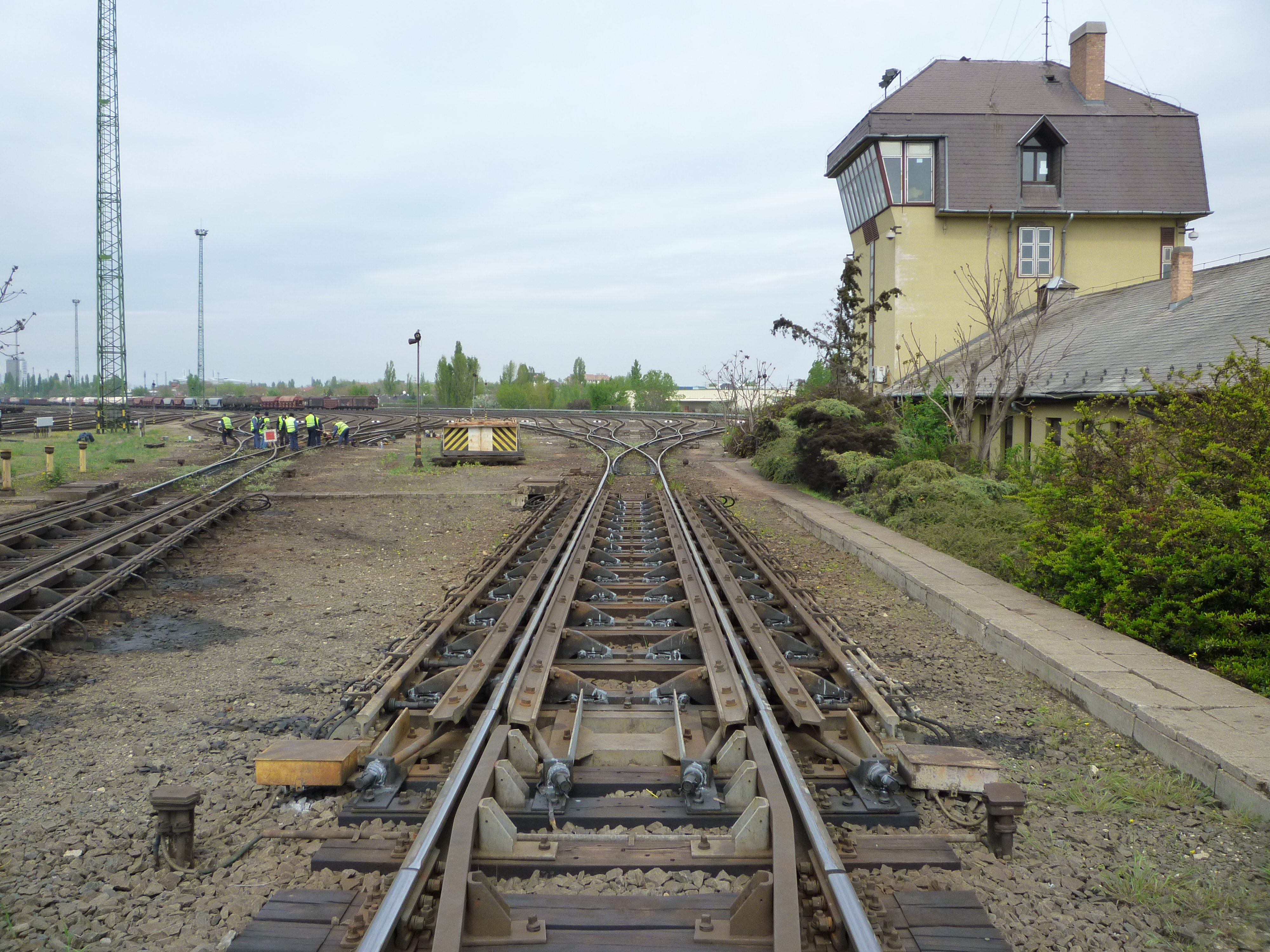 A retarder at Ferencváros classification yard, the retarder-operators are works in the tower on the right.